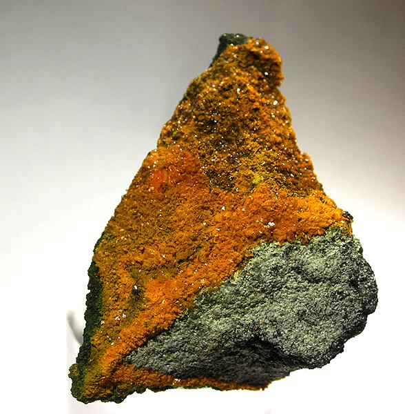 Pascoite Locality: Ponto No. 3 Claim, Gypsum Valley District, San Miguel County, Colorado, USA (Locality at ) EXTREMELY RARE sub-mm but eye-visible, bright orange crystals of the mineral pascoite, which does not commonly occur in crystalline form. I am told that these old specimens are extremely rich and fine for the material. 4 x 3 x 2 cm